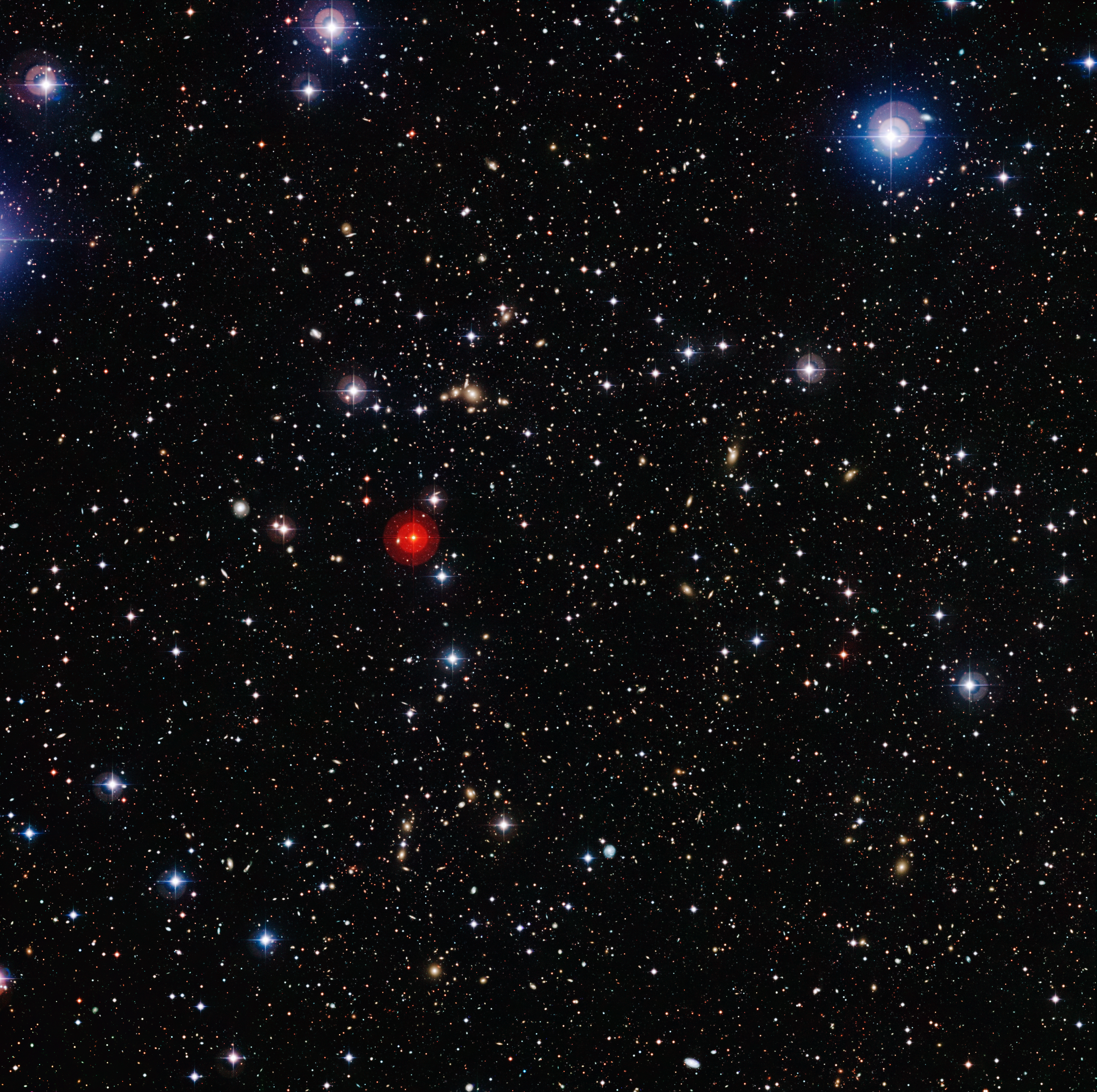 This deep-field image shows what is known as a supercluster of galaxies — a giant group of galaxy clusters which are themselves clustered together. This one, known as Abell 901/902, comprises three separate main clusters and a number of filaments of galaxies, typical of such super-structures. One cluster, Abell 901a, can be seen above and just to the right of the prominent red foreground star near the middle of the image. Another, Abell 901b, is further to the right of Abell 901a, and slightly lower. Finally, the cluster Abell 902 is directly below the red star, towards the bottom of the image. The Abell 901/902 supercluster is located a little over two billion light-years from Earth, and contains hundreds of galaxies in a region about 16 million light-years across. For comparison, the Local Group of galaxies — which contains our Milky Way among more than 50 others — measures roughly ten million light-years across. This image was taken by the Wide Field Imager (WFI) camera on the MPG/ESO 2.2-metre telescope, located at the La Silla Observatory in Chile. Using data from the WFI and from the NASA/ESA Hubble Space Telescope, in 2008 astronomers were able to precisely map the distribution of dark matter in the supercluster, showing that the clusters and individual galaxies which comprise the super-structure reside within vast clumps of dark matter. To do this, astronomers looked at how the light from 60 000 faraway galaxies located behind the supercluster was being distorted by the gravitational influence of the dark matter it contains, thus revealing its distribution. The mass of the four main dark matter clumps of Abell 901/902 is thought to be around ten trillion times that of the Sun. The observations shown here are part of the COMBO-17 survey, a survey of the sky undertaken in 17 different optical filters using the WFI camera. The COMBO-17 project has so far found over 25 000 galaxies.